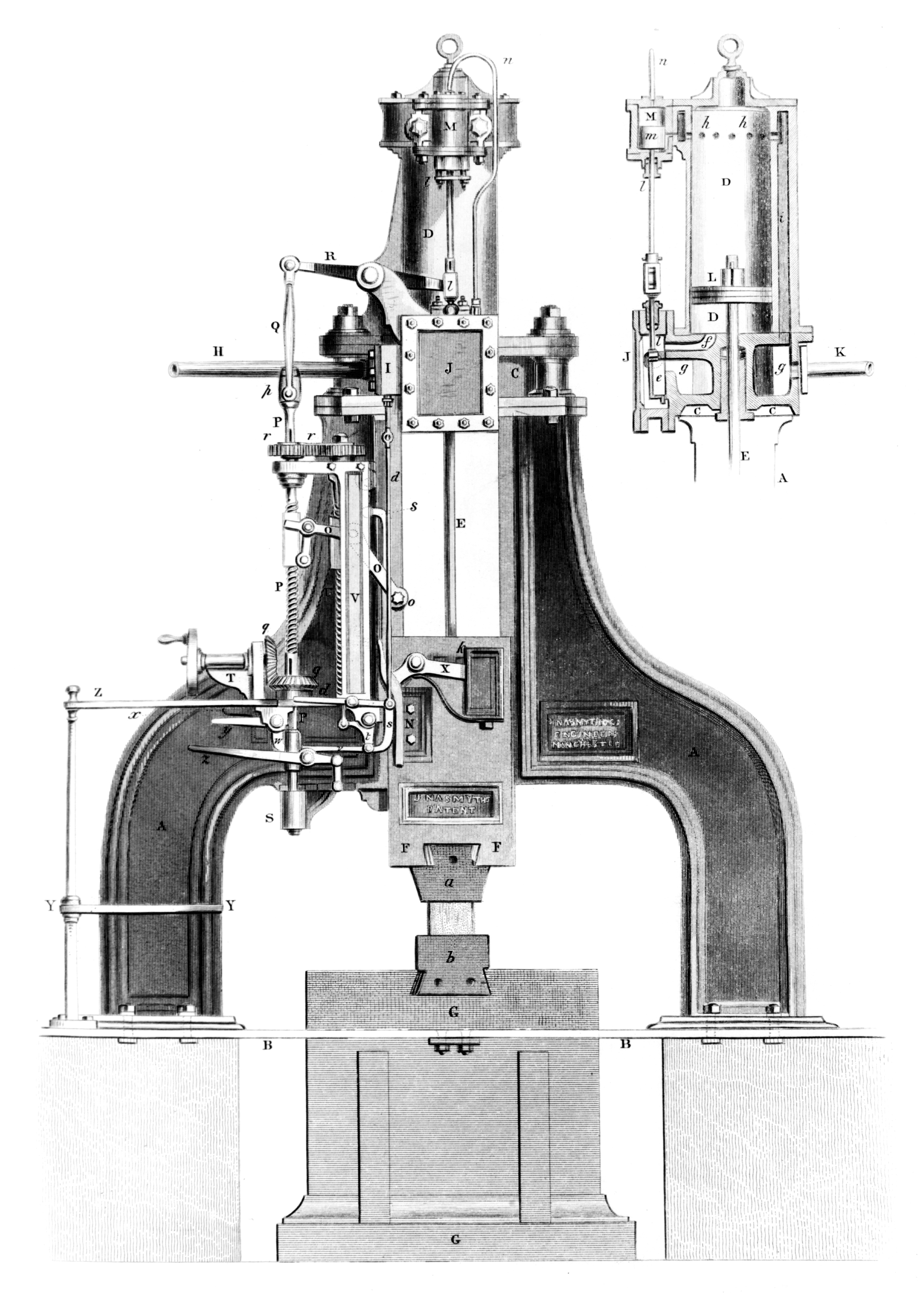 Diagram of a steam hammer patented by Scottish engineer James Nasmyth (1808-1890). "Nasmyth's patent steam hammer, copied by permission of the inventor from the machine in the great exhibition". Illustration in: "Cyclopædia of useful arts, mechanical and chemical, manufactures, mining, and engineering", ed. by Charles Tomlinson, London : New York, G. Virtue & co., 1854.